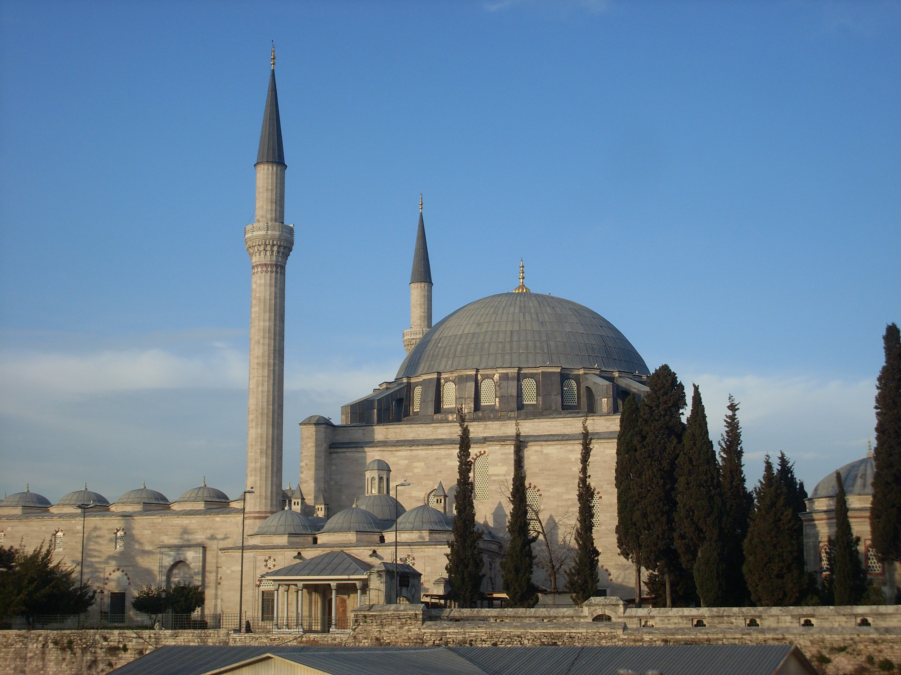 İstanbul - Yavuz Selim Mosque - Mart 2013 - r2